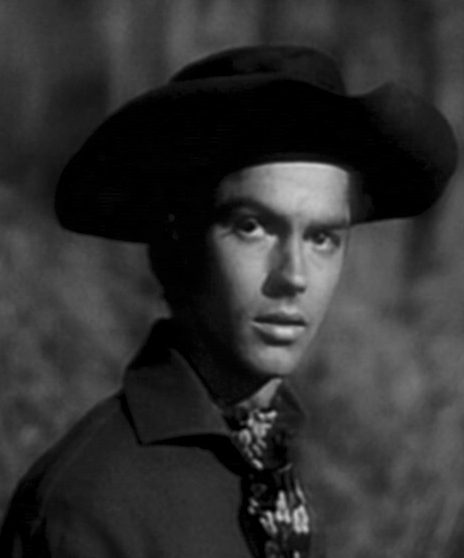 Screenshot of Jack Buetel from the film The Outlaw